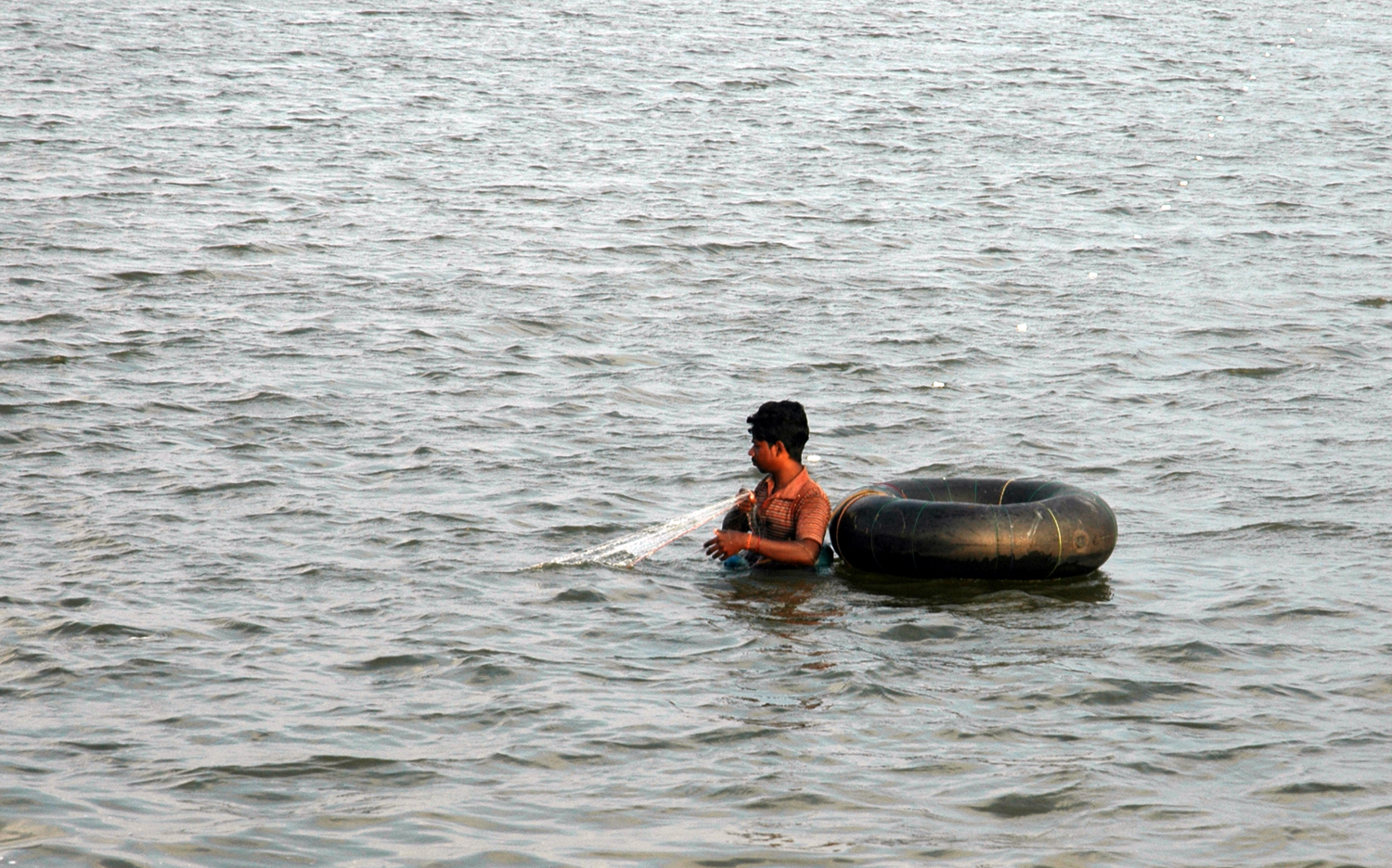 Fishing in Vallai lagoon, Jaffna